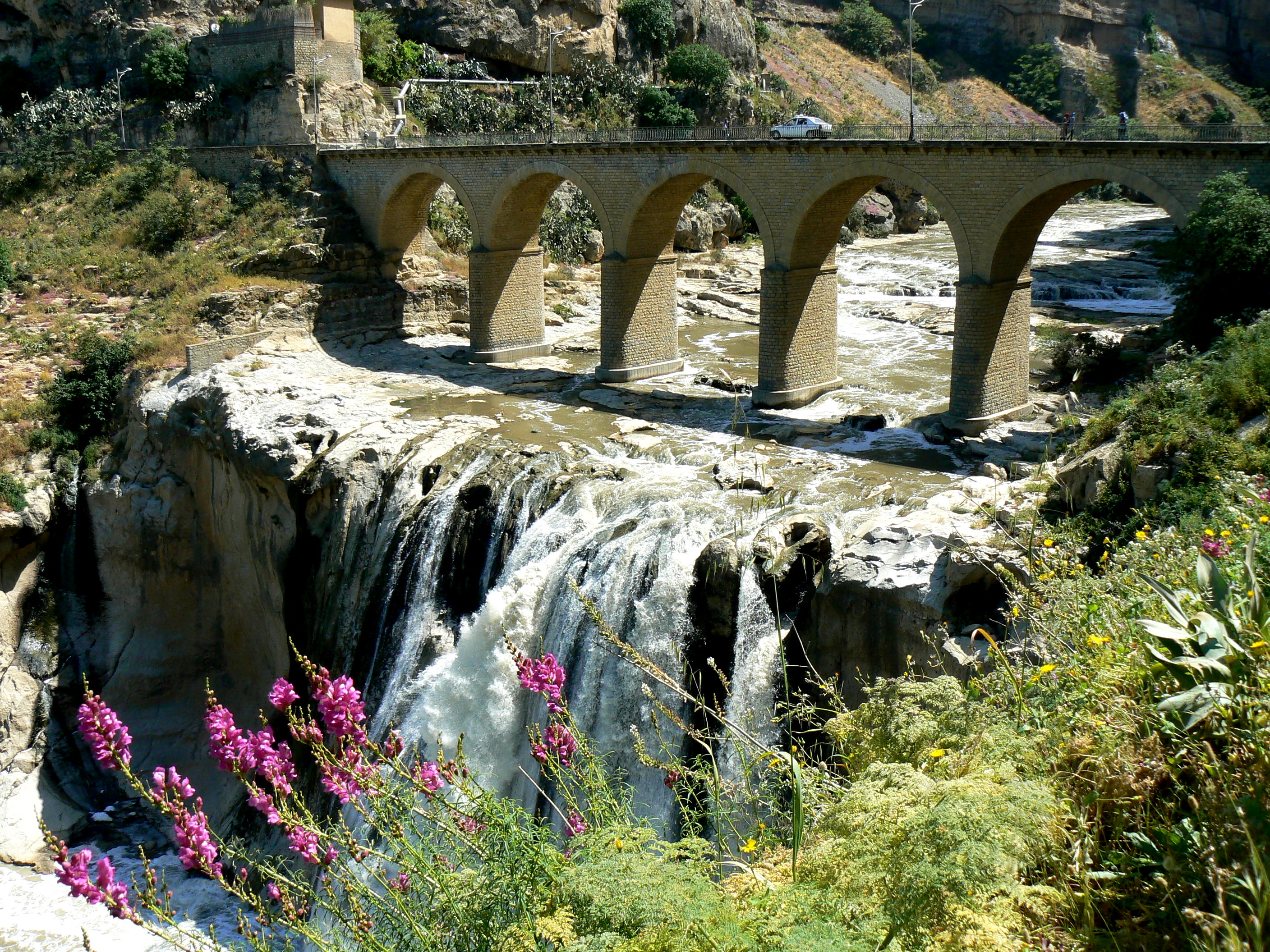 view of the Falls bridge This almost century-old bridge spans the 'Cascades' of Oued Rhummel, which after crossing the famous Gorges du Rhummel continues its course towards the Valley of Hamma ... It bore the name of 'Duc d'Aumale' (son of the King Philippe, last King of France, and former Governor General of Algeria), renamed 'Bridge Falls'.